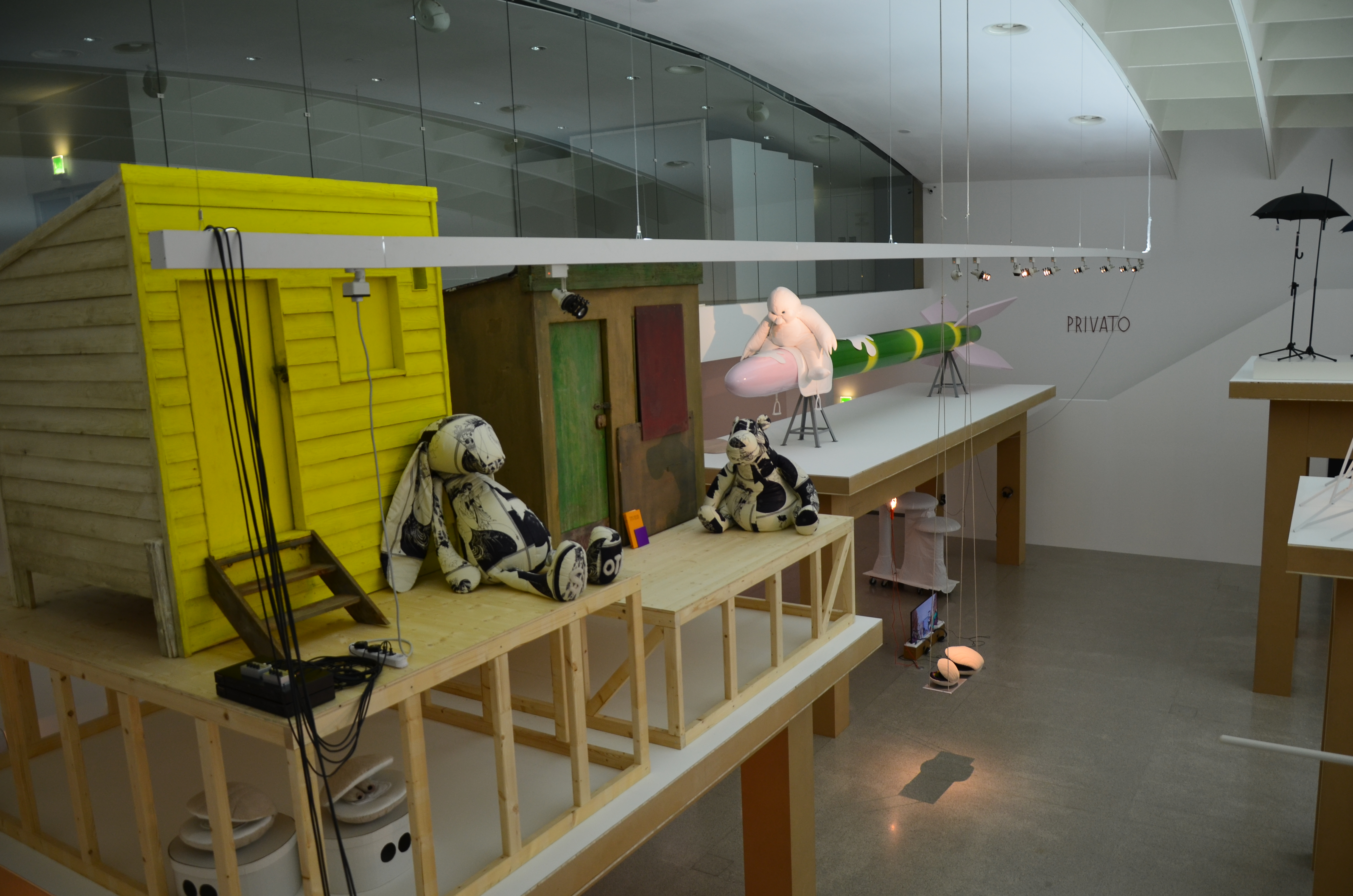 Vomiting white chick by Cosima von Bonin, exibition in mumok, Vienna, Austria.